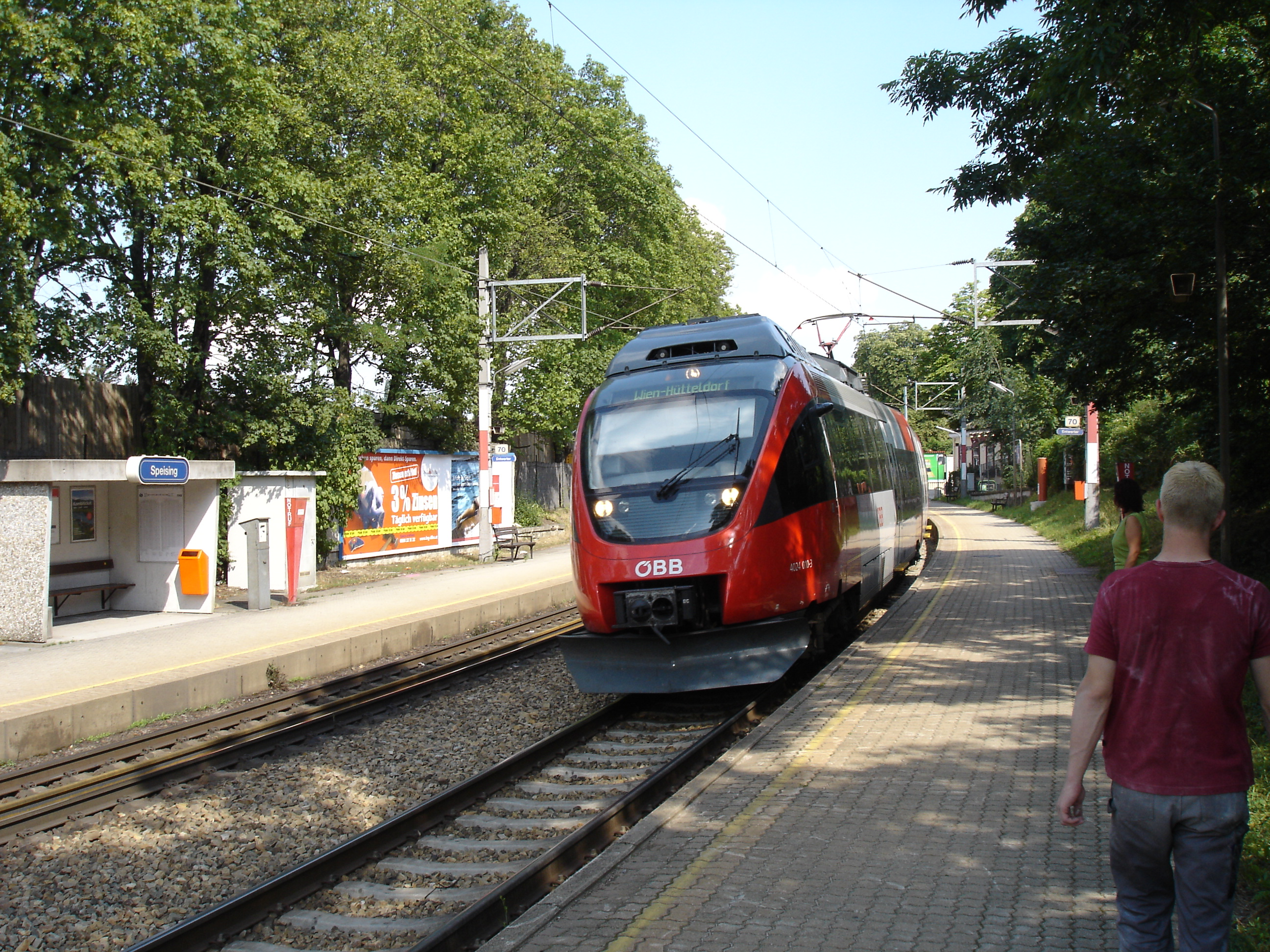 A TALENT train, operating on the S15 line, enters Speising station in Vienna, Austria